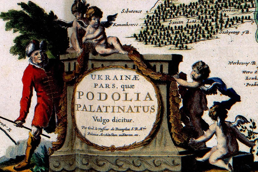 Ukraine. Podolia_Palatinatus